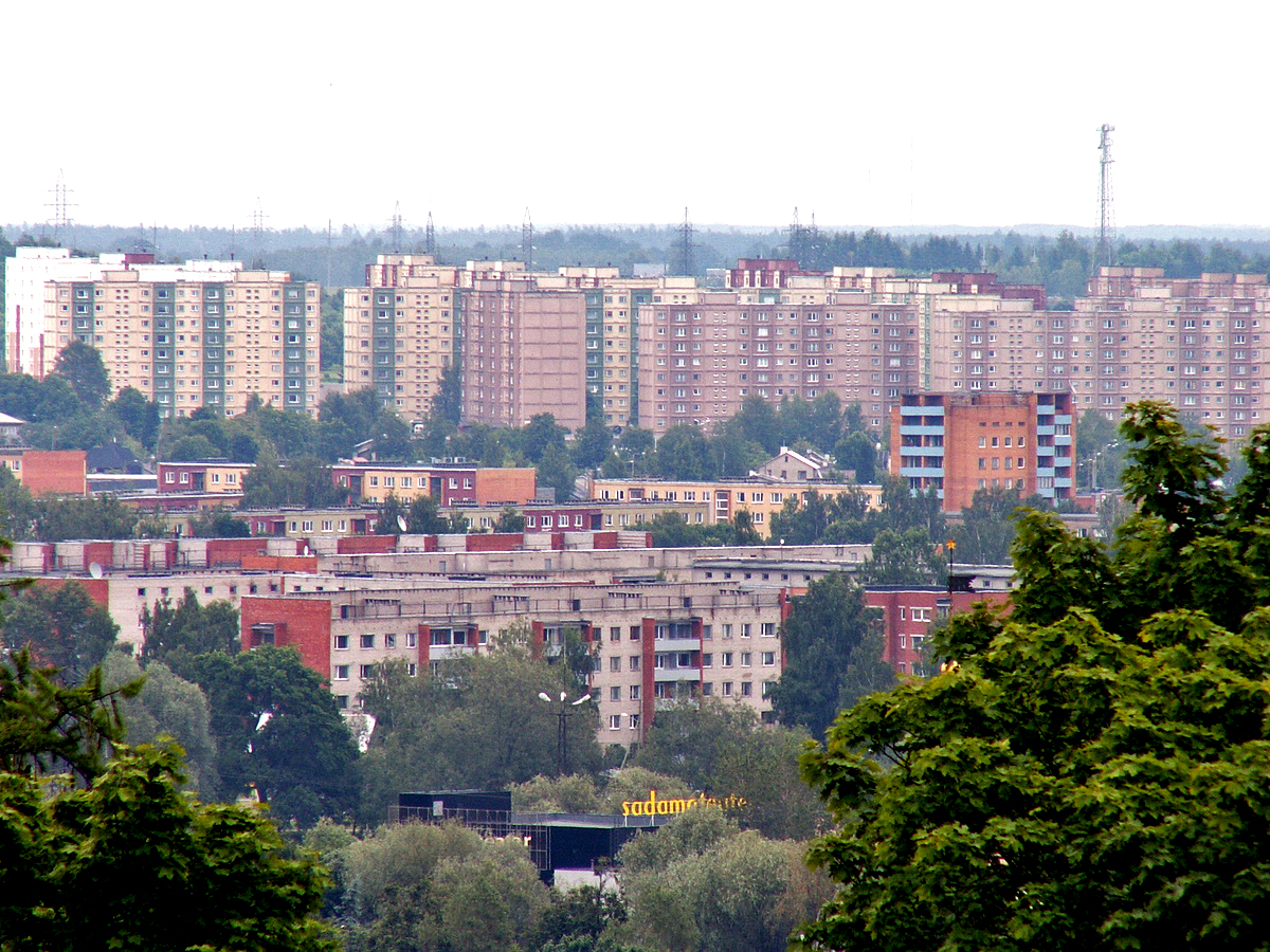 Annelinn from distance. Yellow Tartu type panel 9 stories houses are dominating in background. Picture taken from tower of domchurch of Tartu.